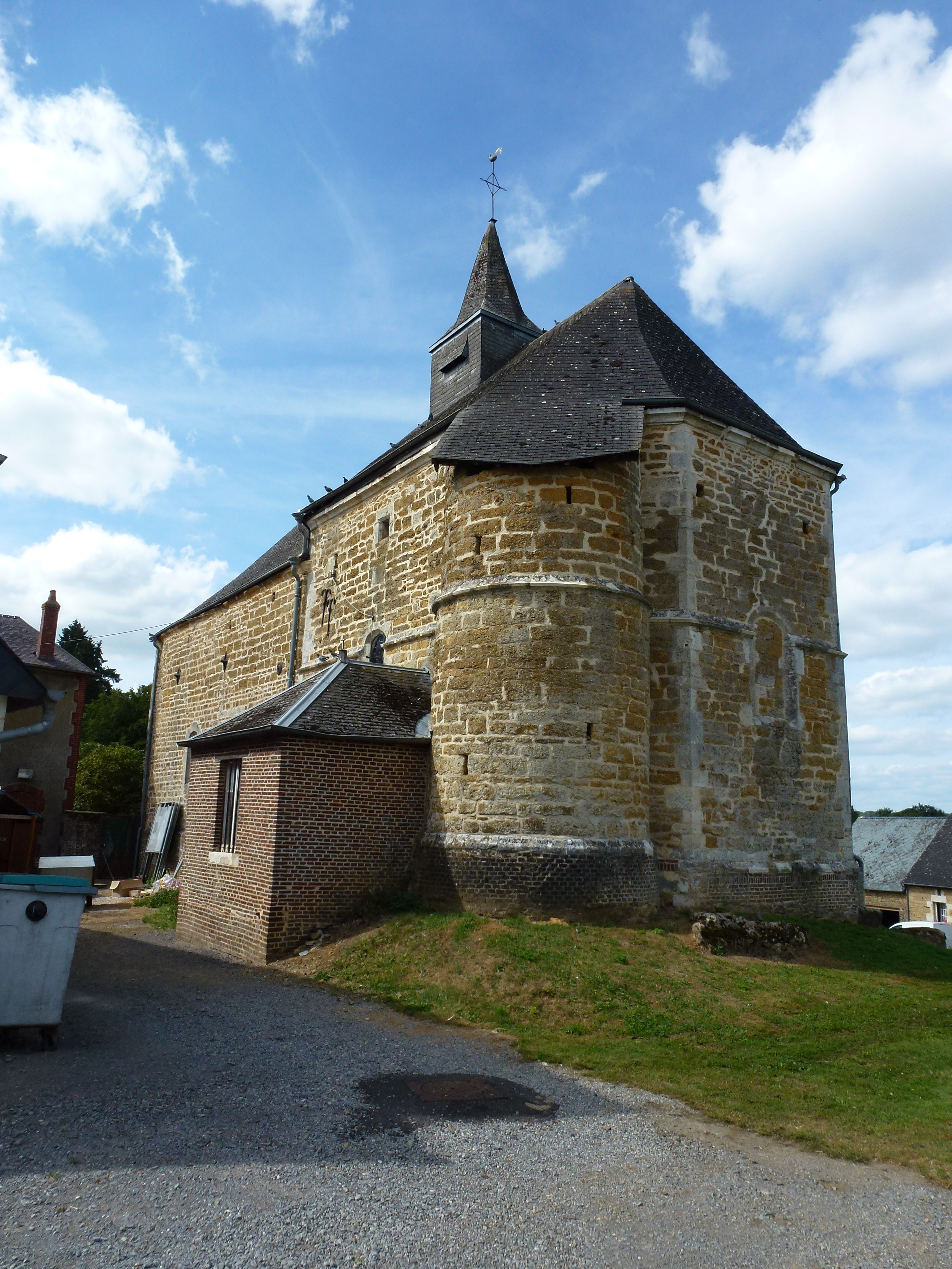 Fligny (Ardennes) église, chevet